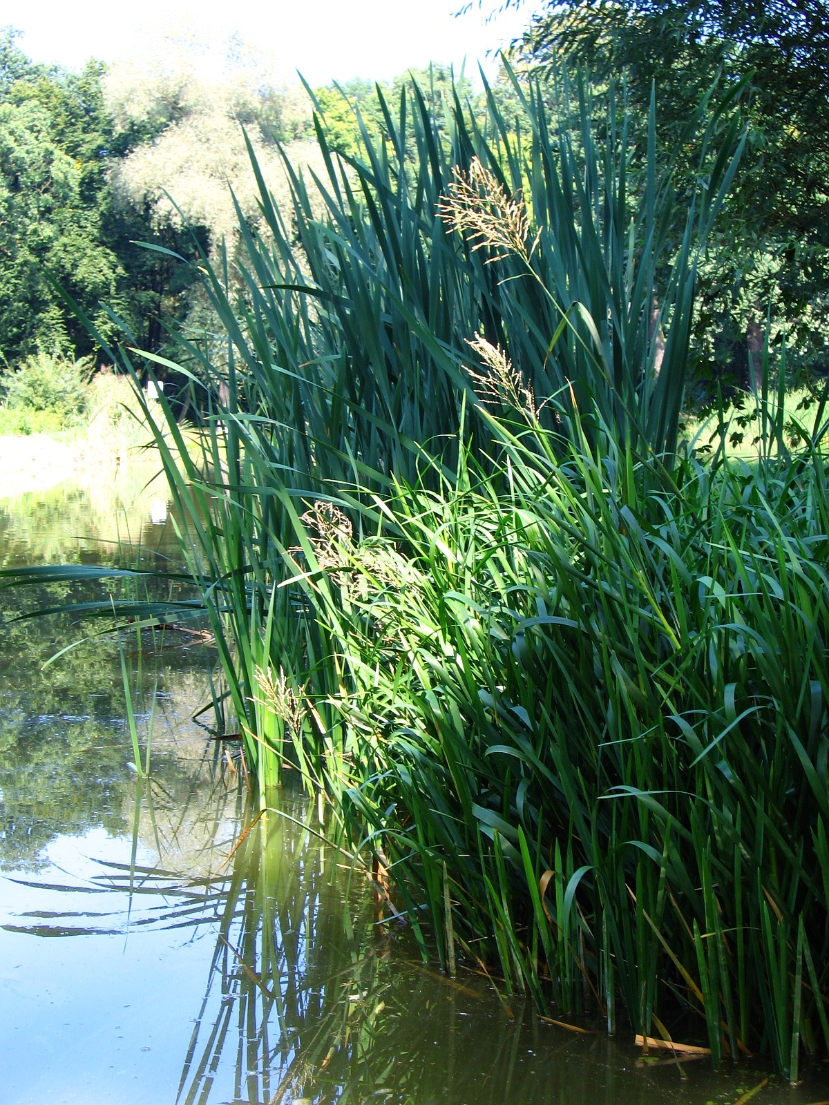 Flora of natural pond (restocked) in Sołtysowicki Forest, Wrocław, Poland. Reed beds.